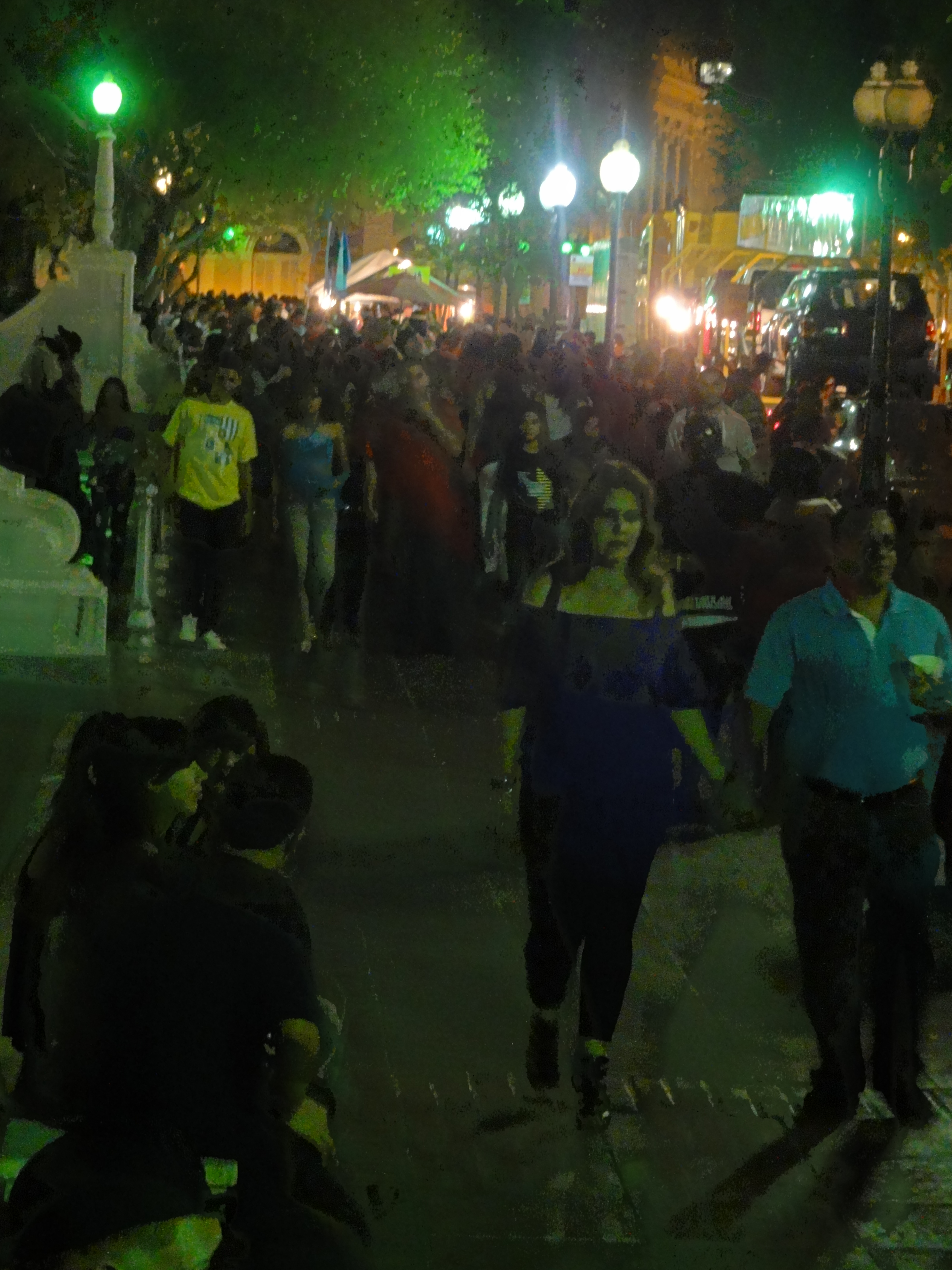 Las Justas, 27 Abril 2018, Plaza Las Delicias, Calle Unión, Bo. Segundo, Ponce, Puerto Rico, mirando al sur (DSC00098)